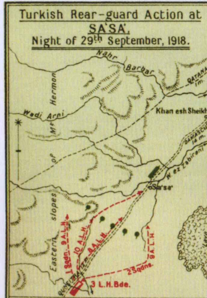 Falls Sketch Map 39 detail shows Sasa fighting Other information Crown copyright access unrestricted